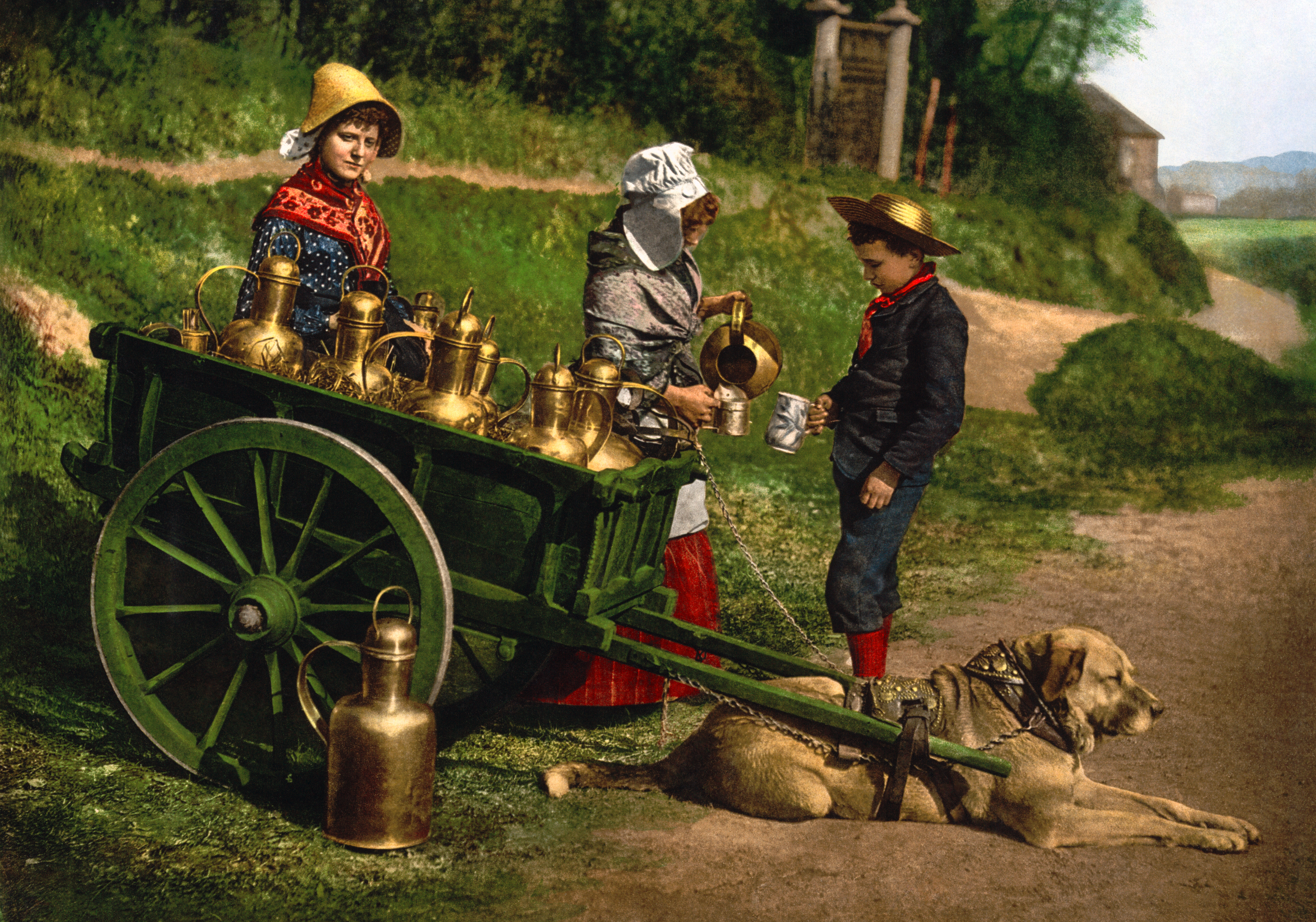 Milksellers, Brussels, Belgium with dogcart.